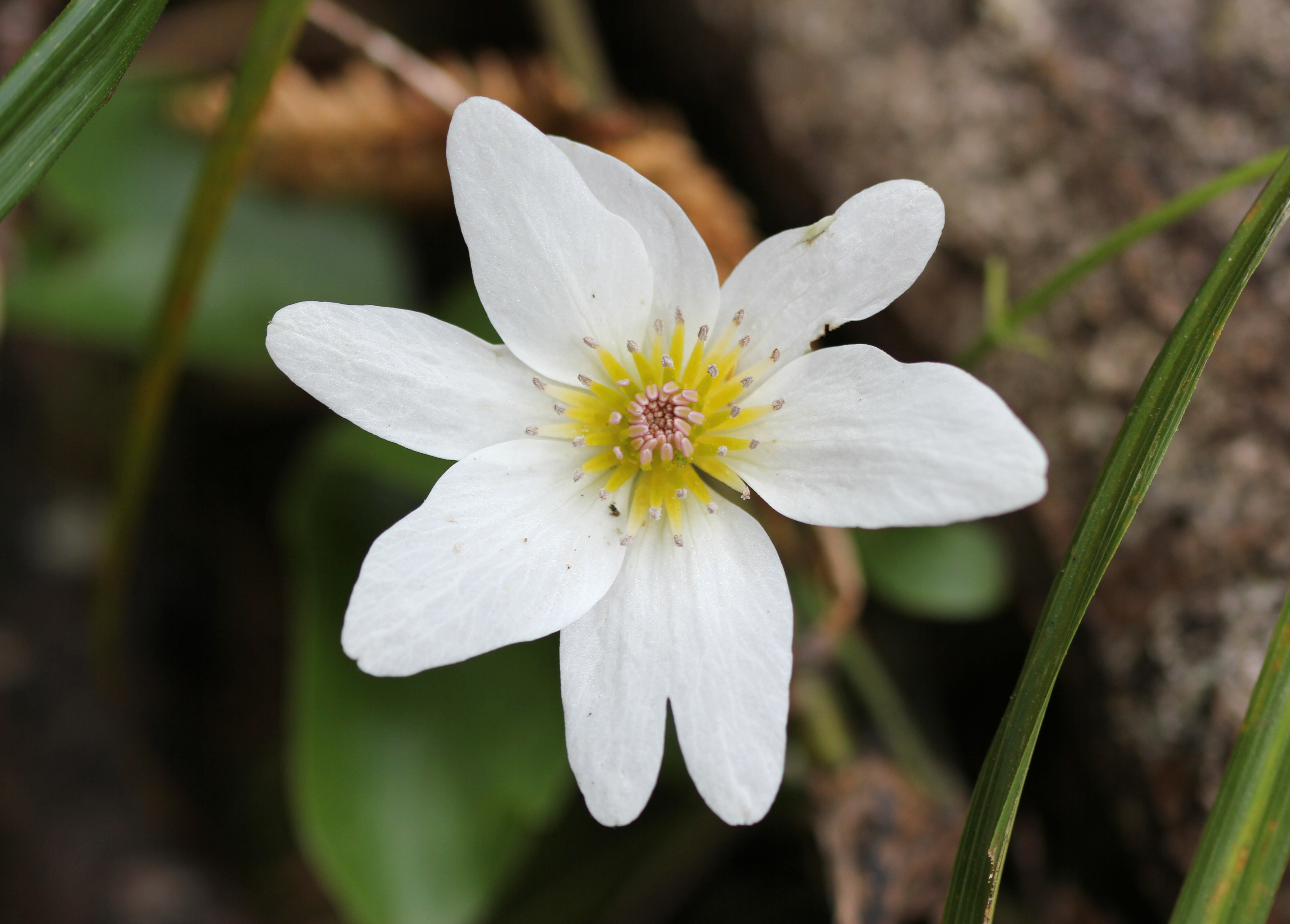 A puawhananga flower (Clematis paniculata). The vine was growing wild in the Waitakere Ranges, near Auckland, New Zealand, and the tree it was growing up had recently fallen to the ground.